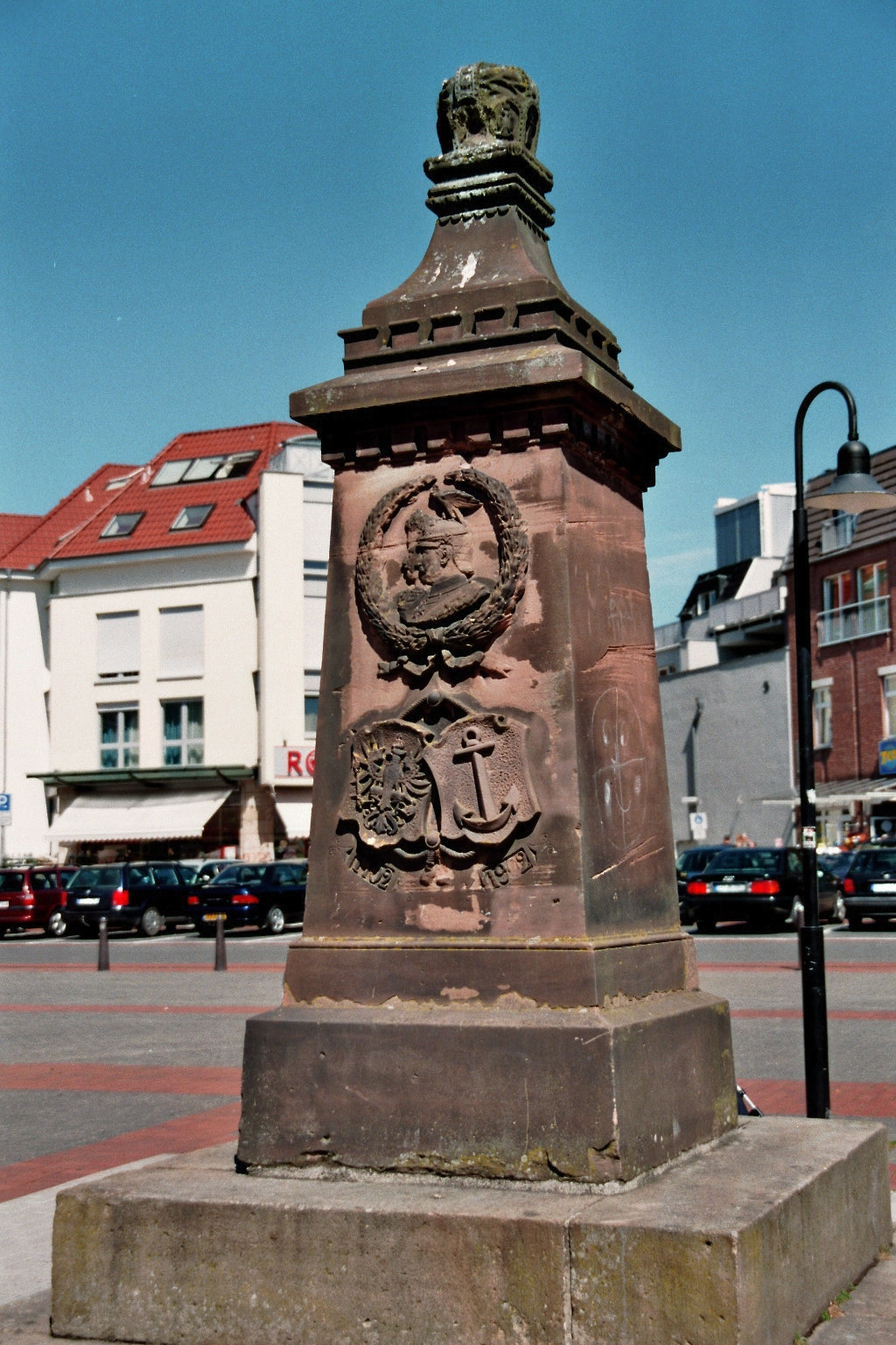 Prussia monument (Preußendenkmal) at the Neumarkt (New Market Square) in Ibbenbüren, Kreis Steinfurt, North Rhine-Westphalia, Germany. The memorial was erected in 1902. It is listed as a cultural heritage monument.